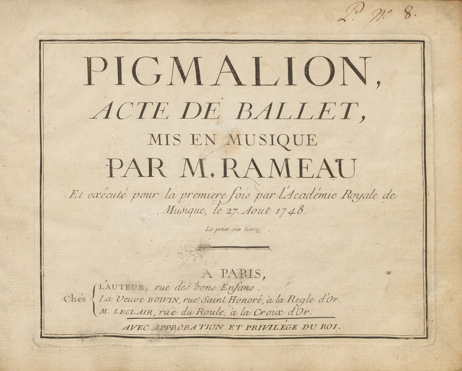 Title page: Pigmalion: acte de ballet, Paris: 1748, by Jean-Philippe Rameau. M1520.R212 F4 1748, Harvard Theatre Collection, Houghton Library, Harvard University